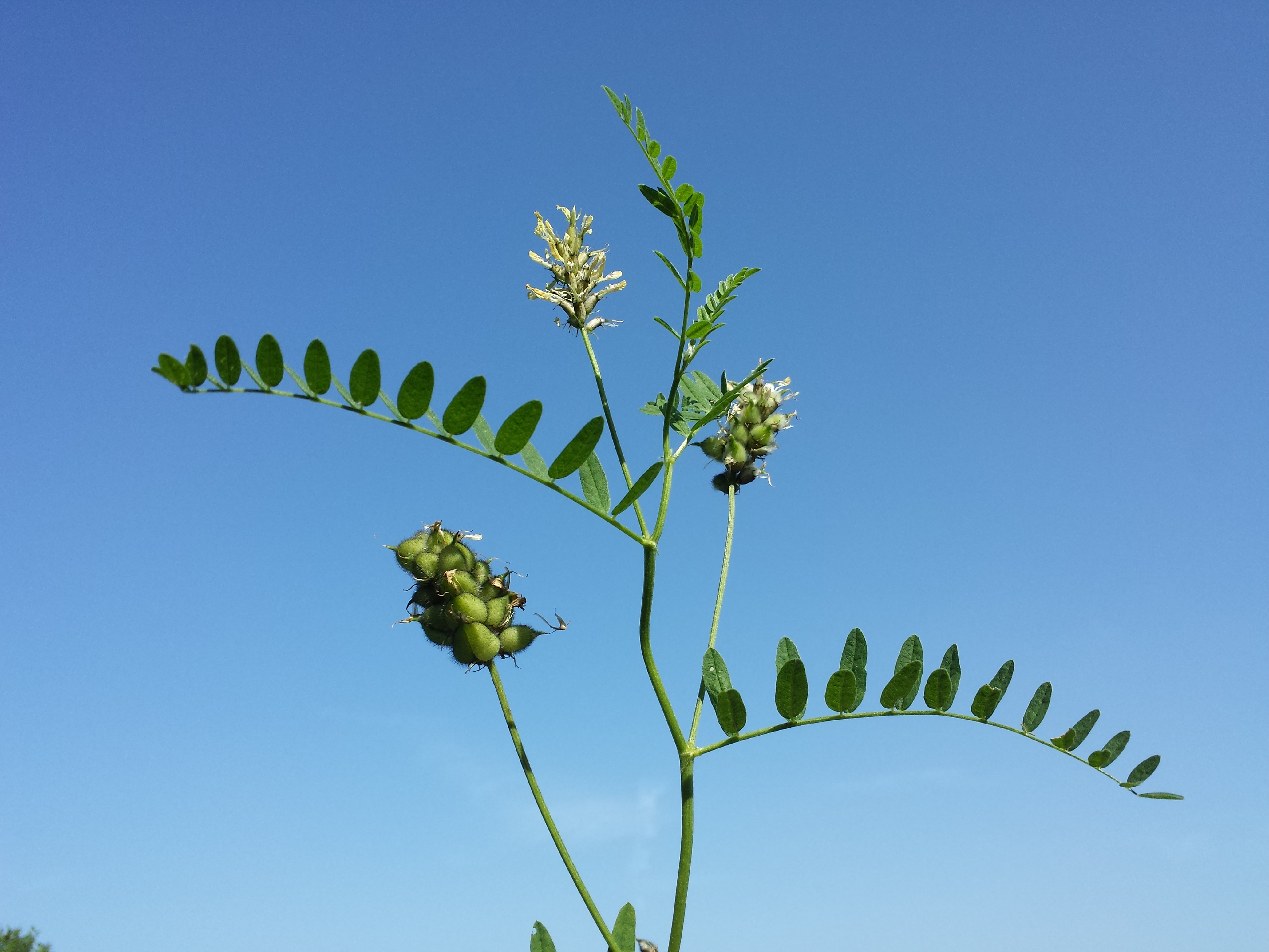 Habitus Taxonym: Astragalus cicer ss Fischer et al. EfÖLS 2008 ISBN 978-3-85474-187-9 Location: near Niederhollabrunn, district Korneuburg, Lower Austria - ca. 350 m a.s.l. Habitat: dry meadows